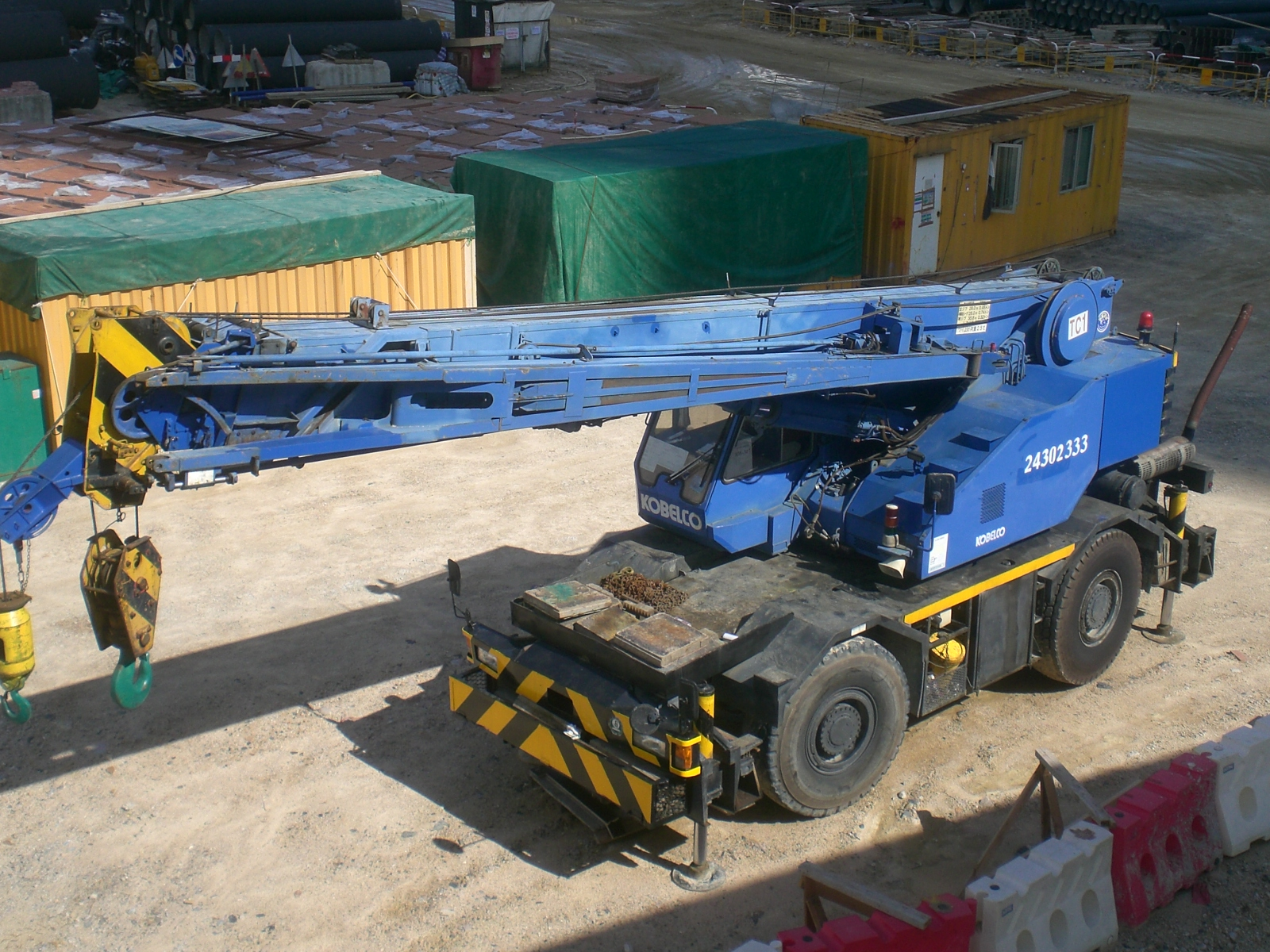 由民耀街zh:中區行人天橋系統望zh:中環及灣仔填海計劃